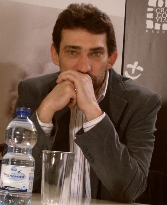 Sławomir Fabicki at an independent film festival in Kleparz, Krakow, Lesser Poland.